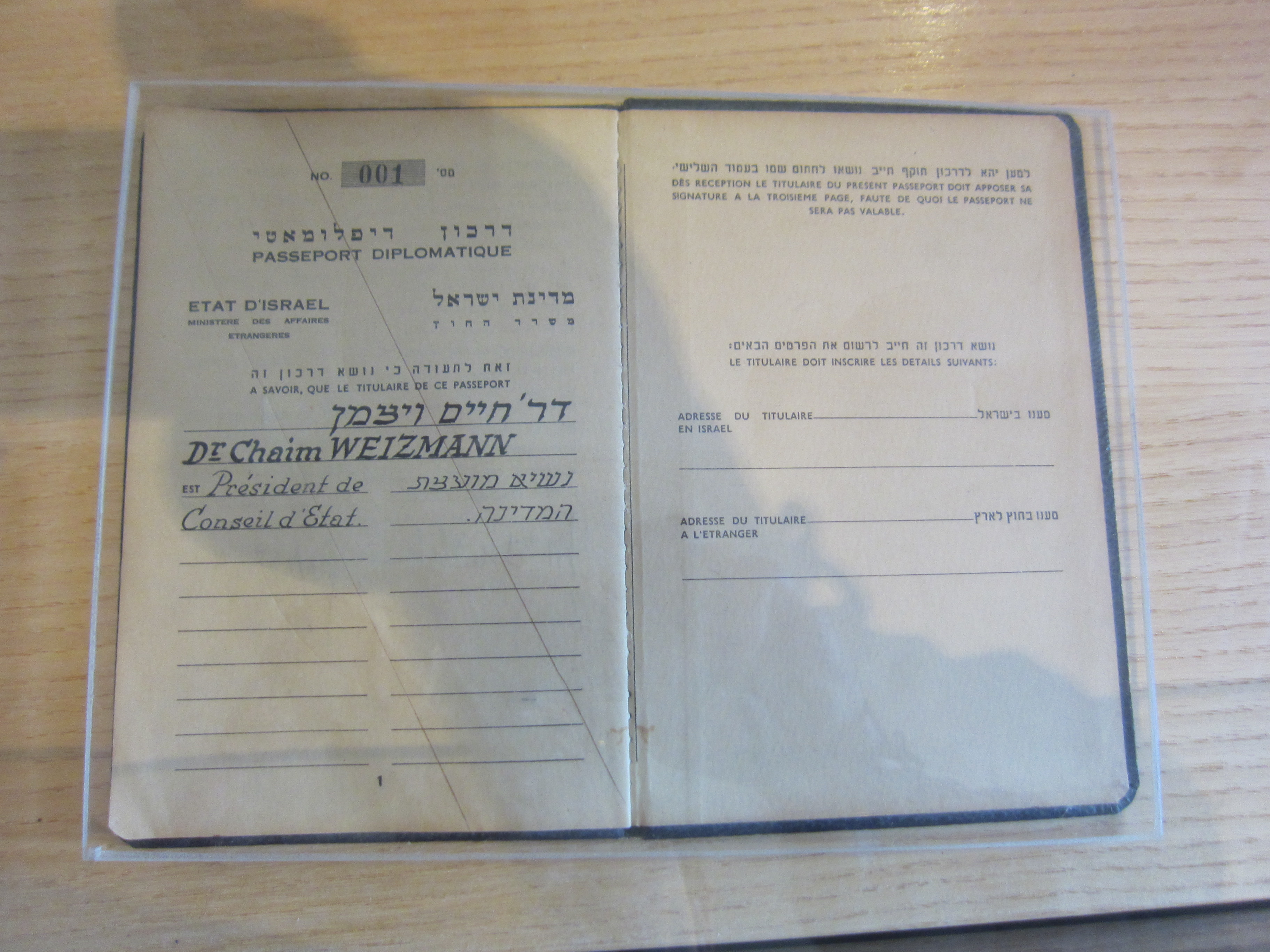 Beit Weizmann